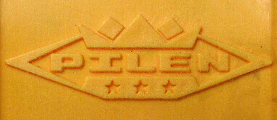 Pilen sign is my own crop, coloring, and texturing.